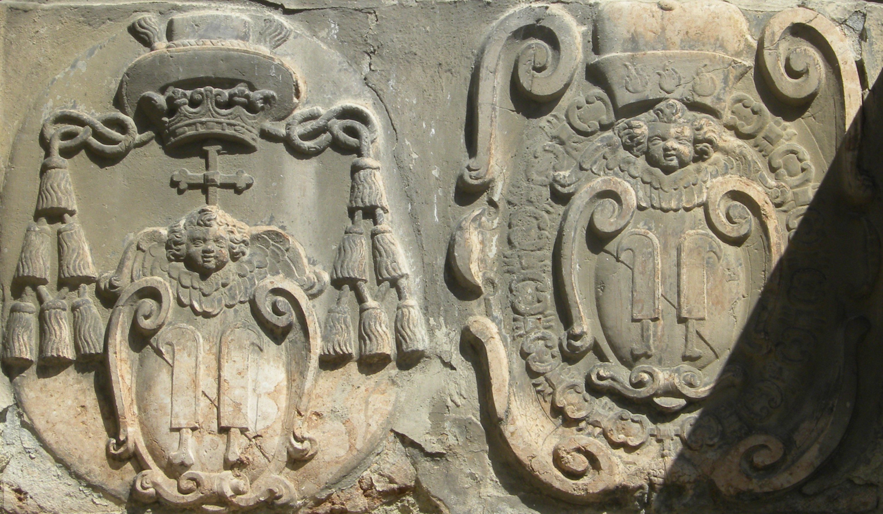 Coats of arms of cardinal Franz Seraph von Dietrichstein (1570 - 1636), bishop of Olomouc, Czech Republic (1599 - 1636) and Maximilian von Dietrichstein (1596 - 1655), Knight of the Golden Fleece since 1634. Portal of St. Joseph Church, Brno, Czech Republic.